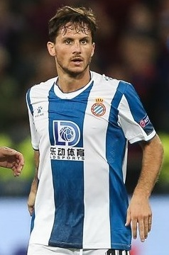 Pablo Piatti with RCD Espanyol in an Europa League game against PFC CSKA Moscow.